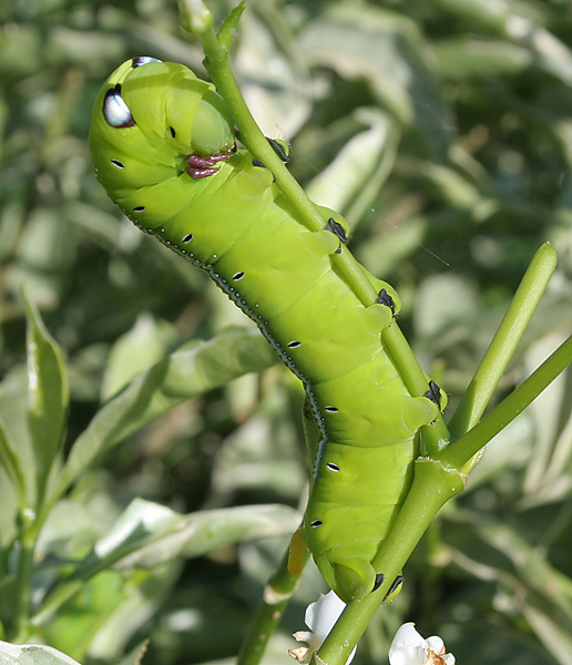 Oleander Hawkmoth Daphnis nerii in Hyderabad , India.